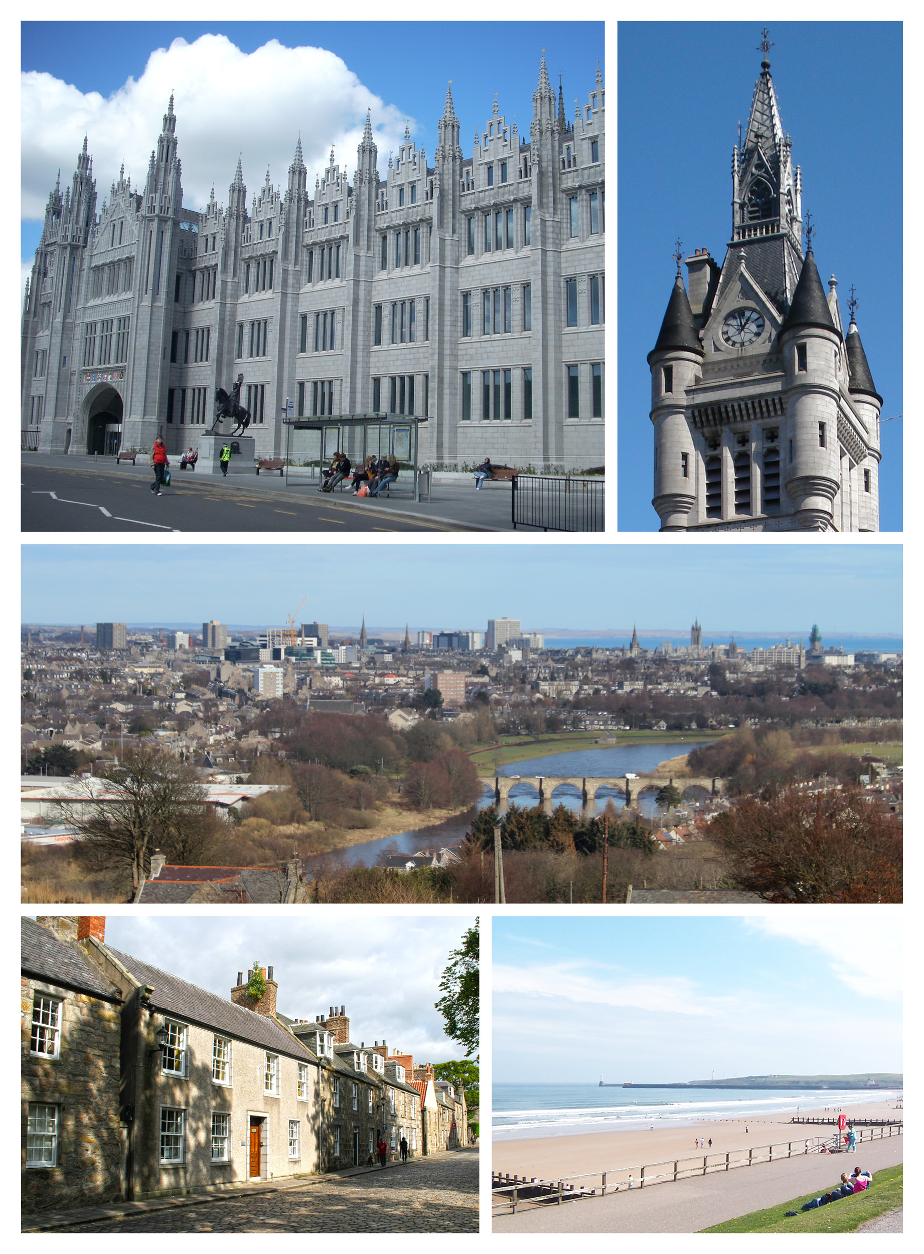 Clockwise from top-left: Marsichal College, West Tower of the new Town House on Union Street, cityscape view from Tollohill Woods, Old Aberdeen High Street, Aberdeen Beach